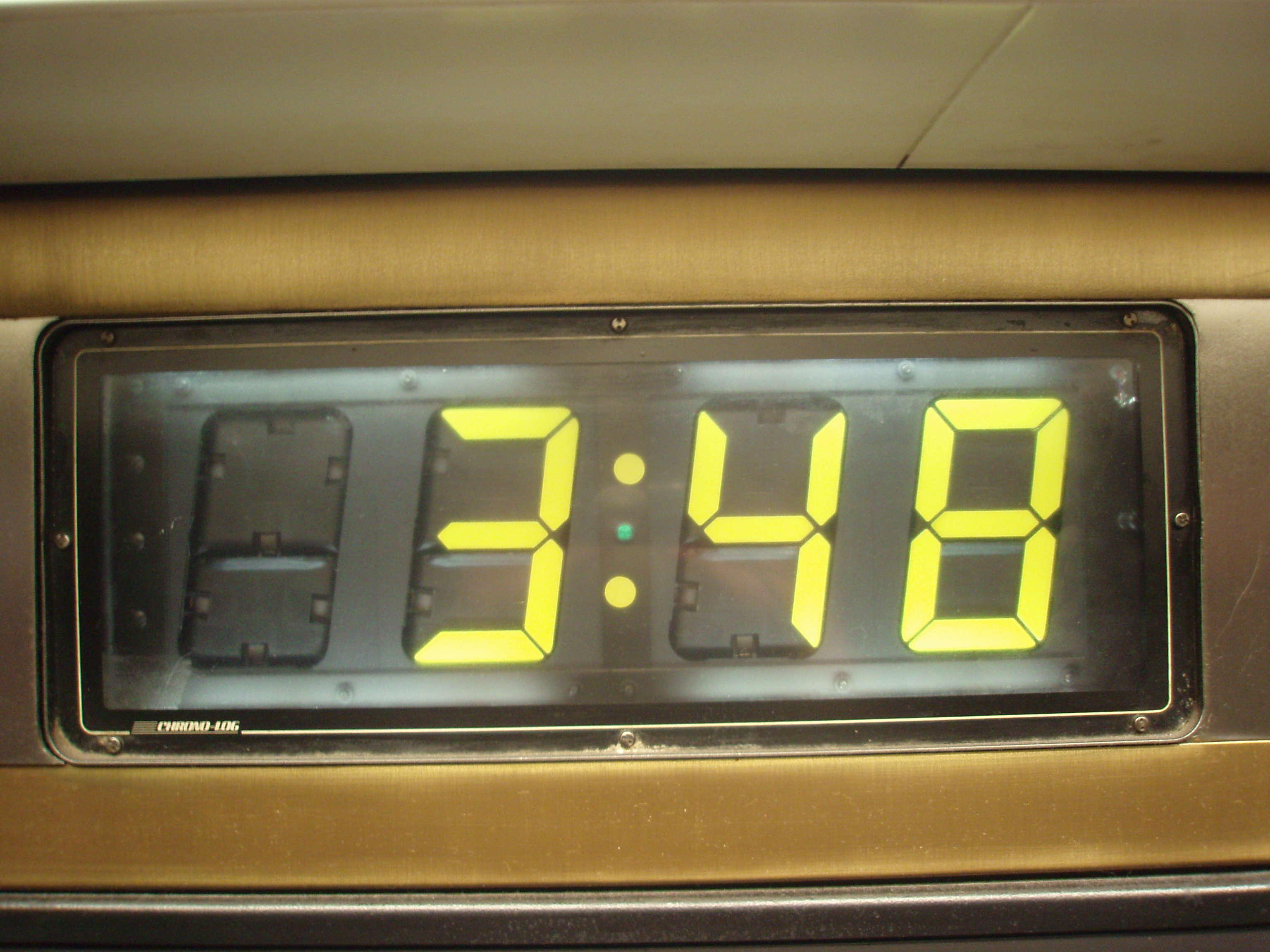 An active vane display clock at Penn Station in New York City